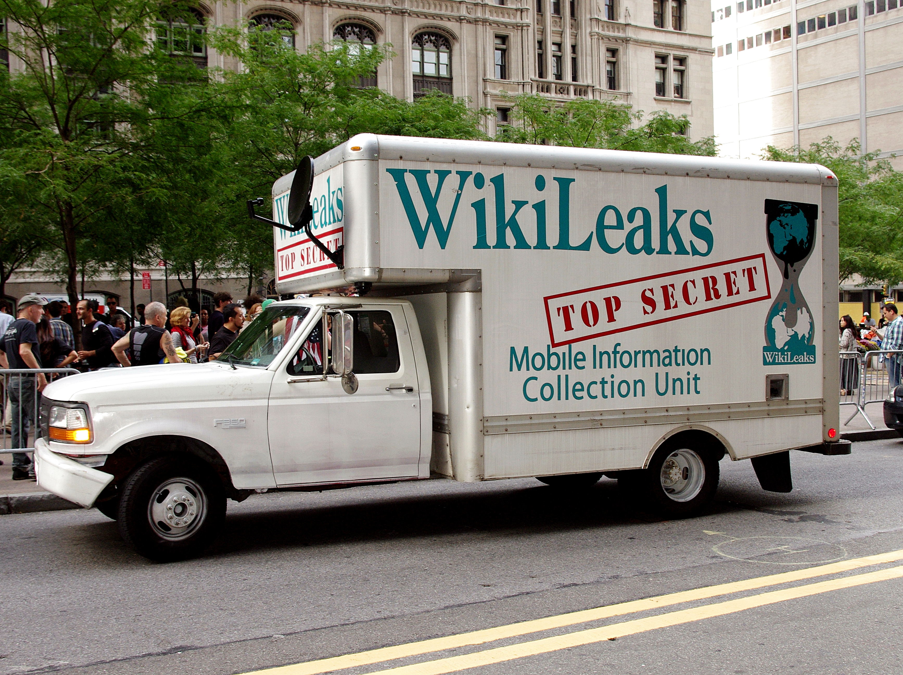 A truck, driven by artist Clark Stoeckley, that purports to be the 'WikiLeaks Top Secret Information Collection Unit' parked at the protest event Occupy Wall Street in New York on Sunday September 25.